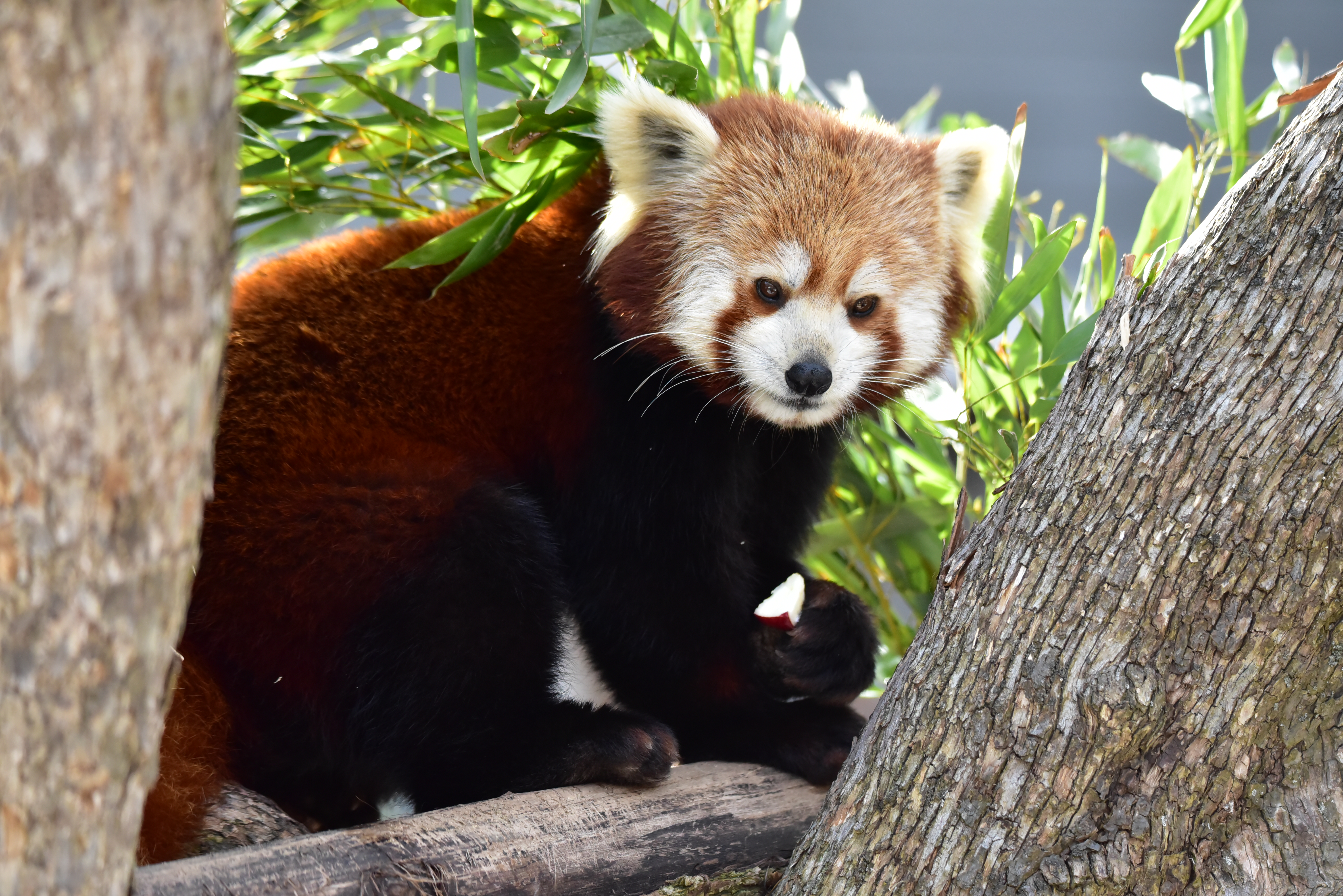 Red panda